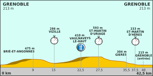 Profil of the 20th stage of the Tour de France 2011